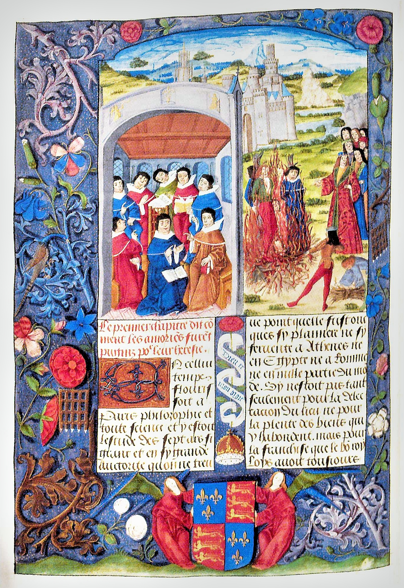 Burning of the Amalricians in presence of Philipp II, King of France. In: Chroniques de France (1487), London, British Library, Royal 20 E. III, f. 177v.